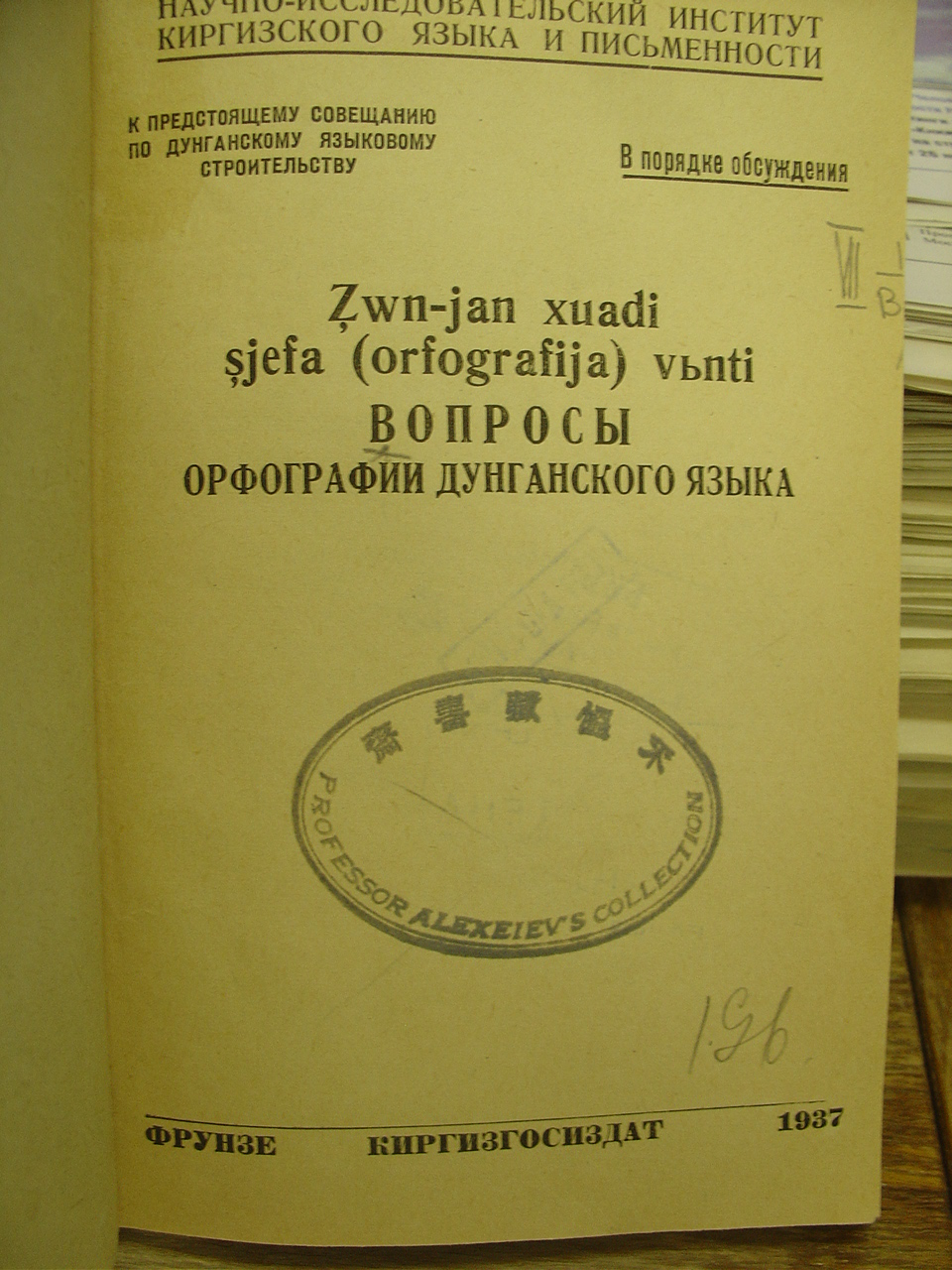 A book on Dungan orthography